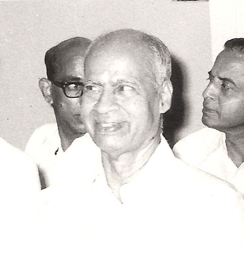 Pisharoth Rama Pisharoty (Malayalam: പിഷാരത്ത് രാമ പിഷാരടി;February 10, 1909 - September 24, 2002) was an Indian physicist and meteorologist, and is considered to be the father of remote sensing in India.